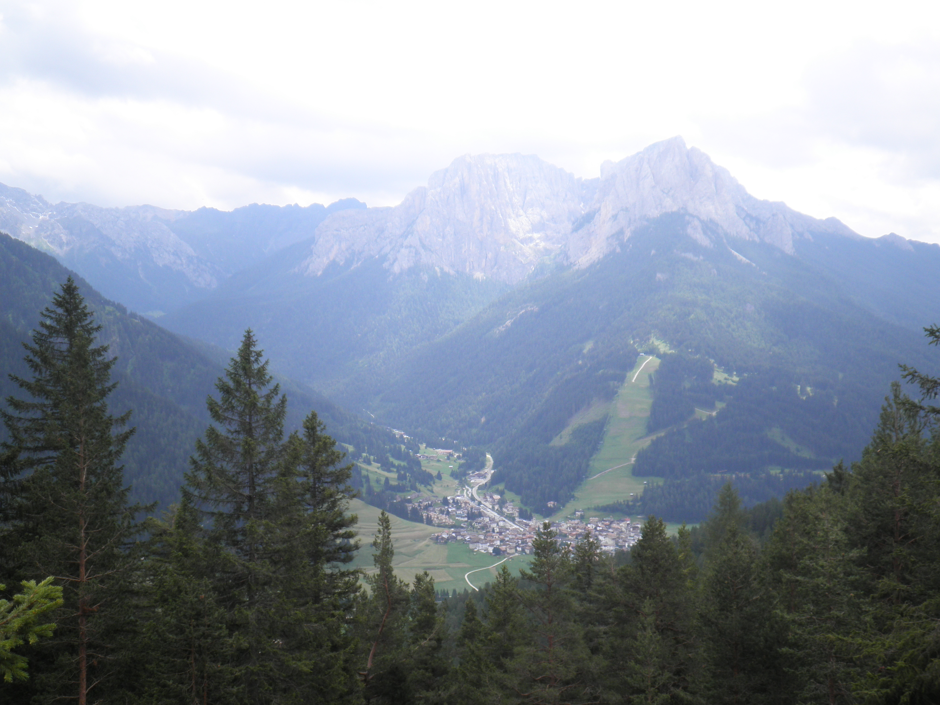 The last part of San Nicolò valley, when it comes into Fassa Valley, near Pozza di Fassa, Italy.